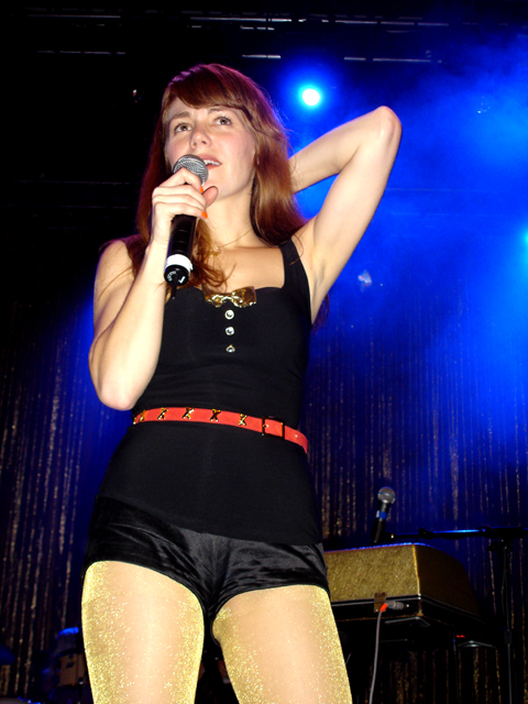 Jenny Lewis Live at The Joint